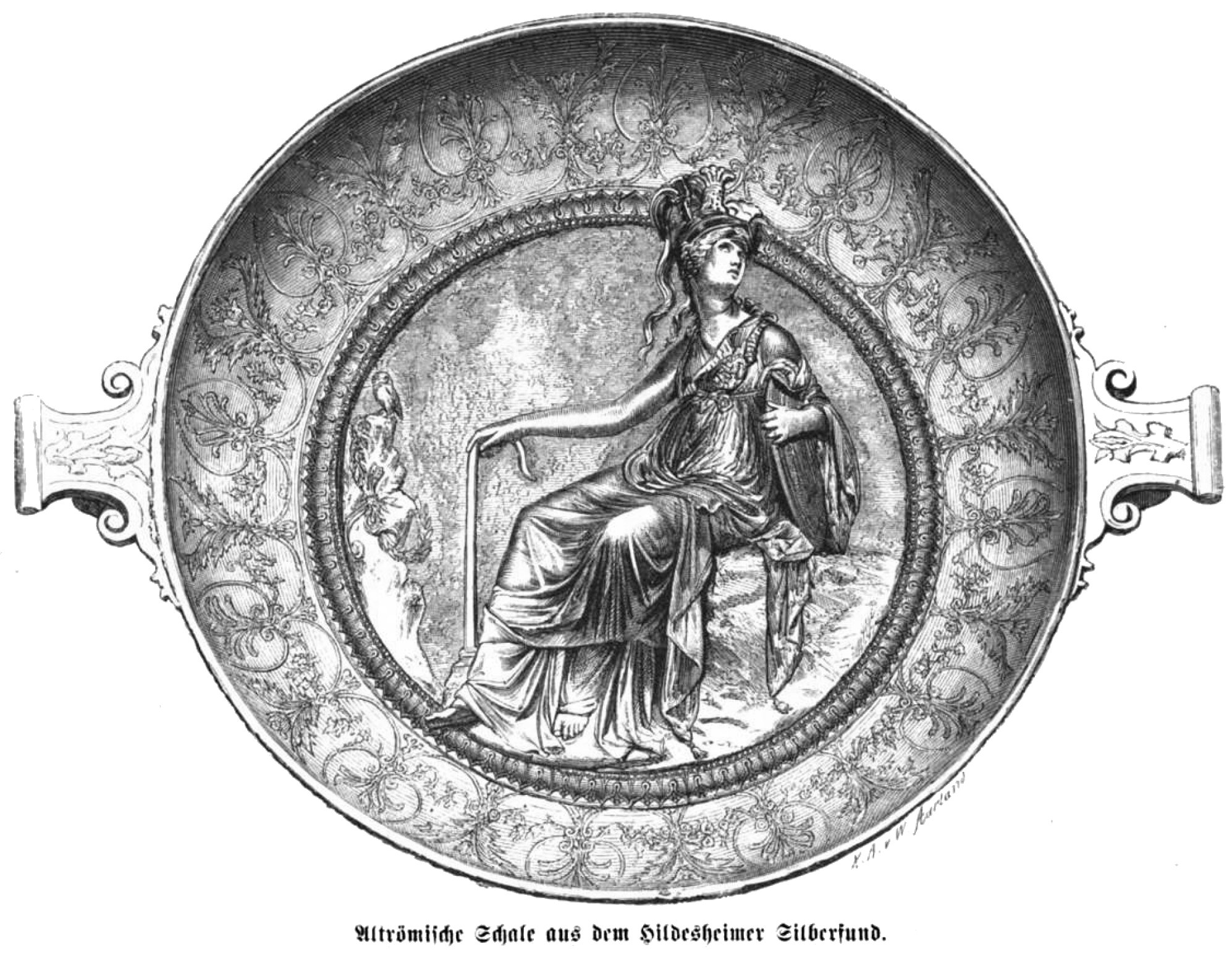 no caption